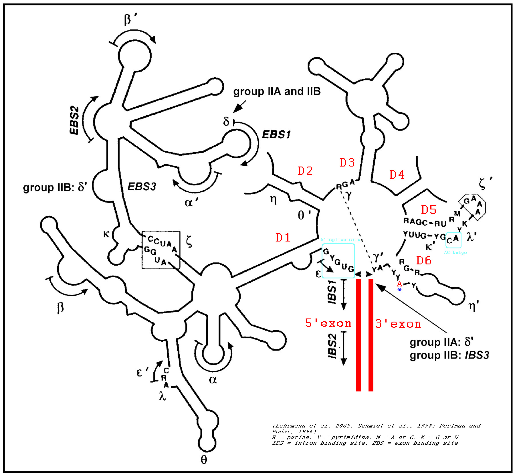 Secondary structure of Group II introns. PMID 12870716, PMID 9737920, PMID 8965729.